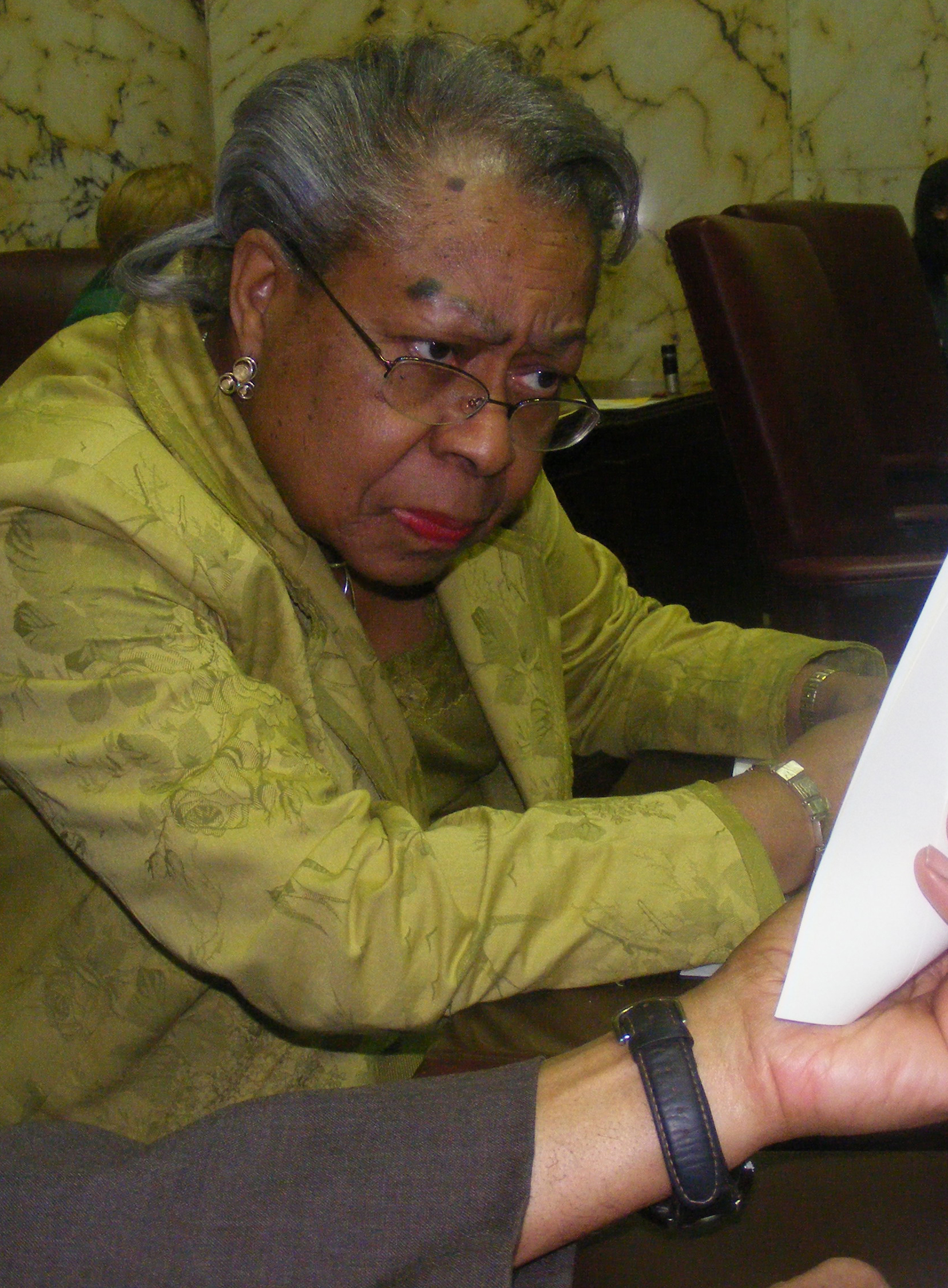 senator delores kelley